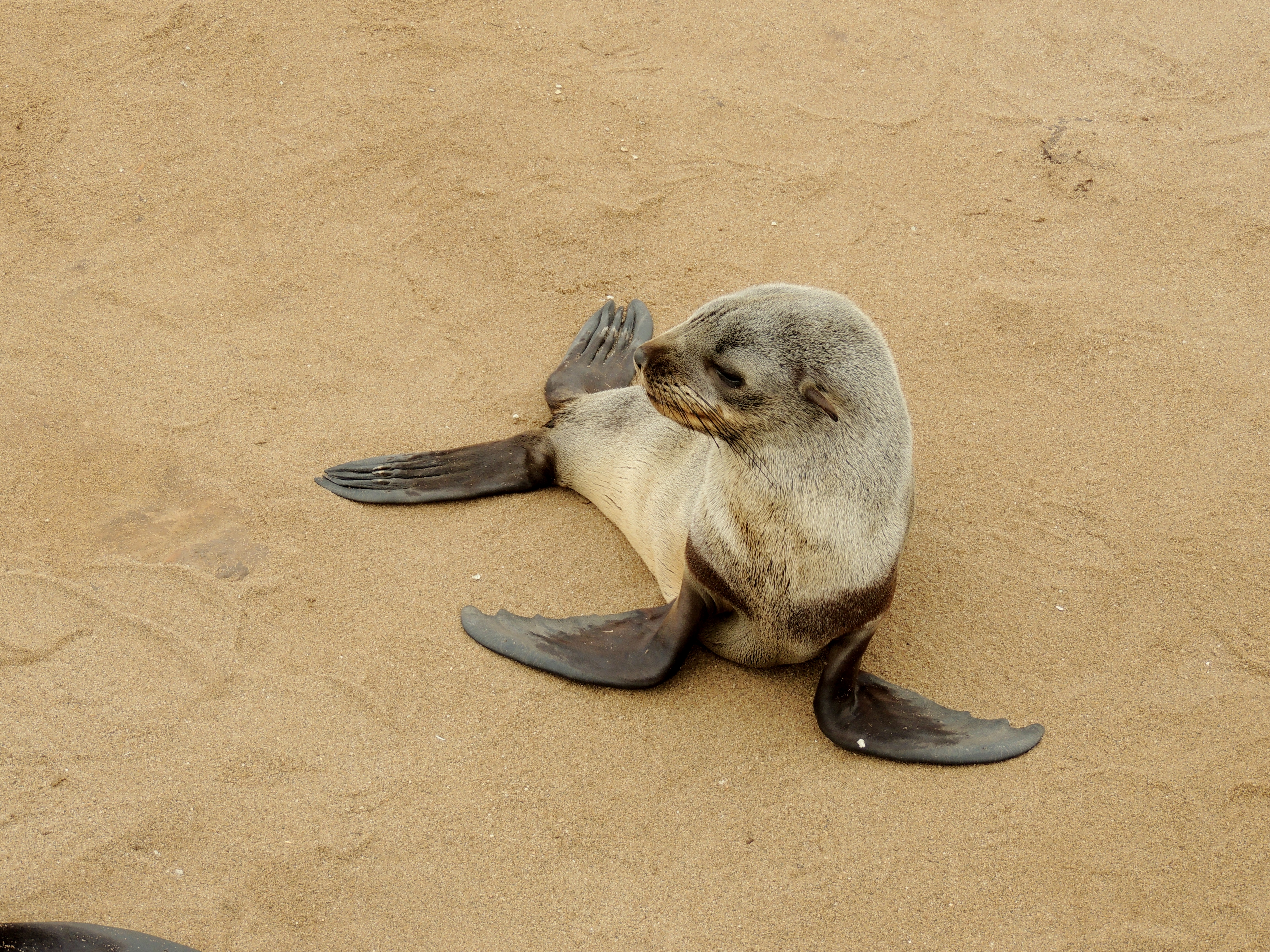 Arctocephalus pusillus 4 - Cape fur seal